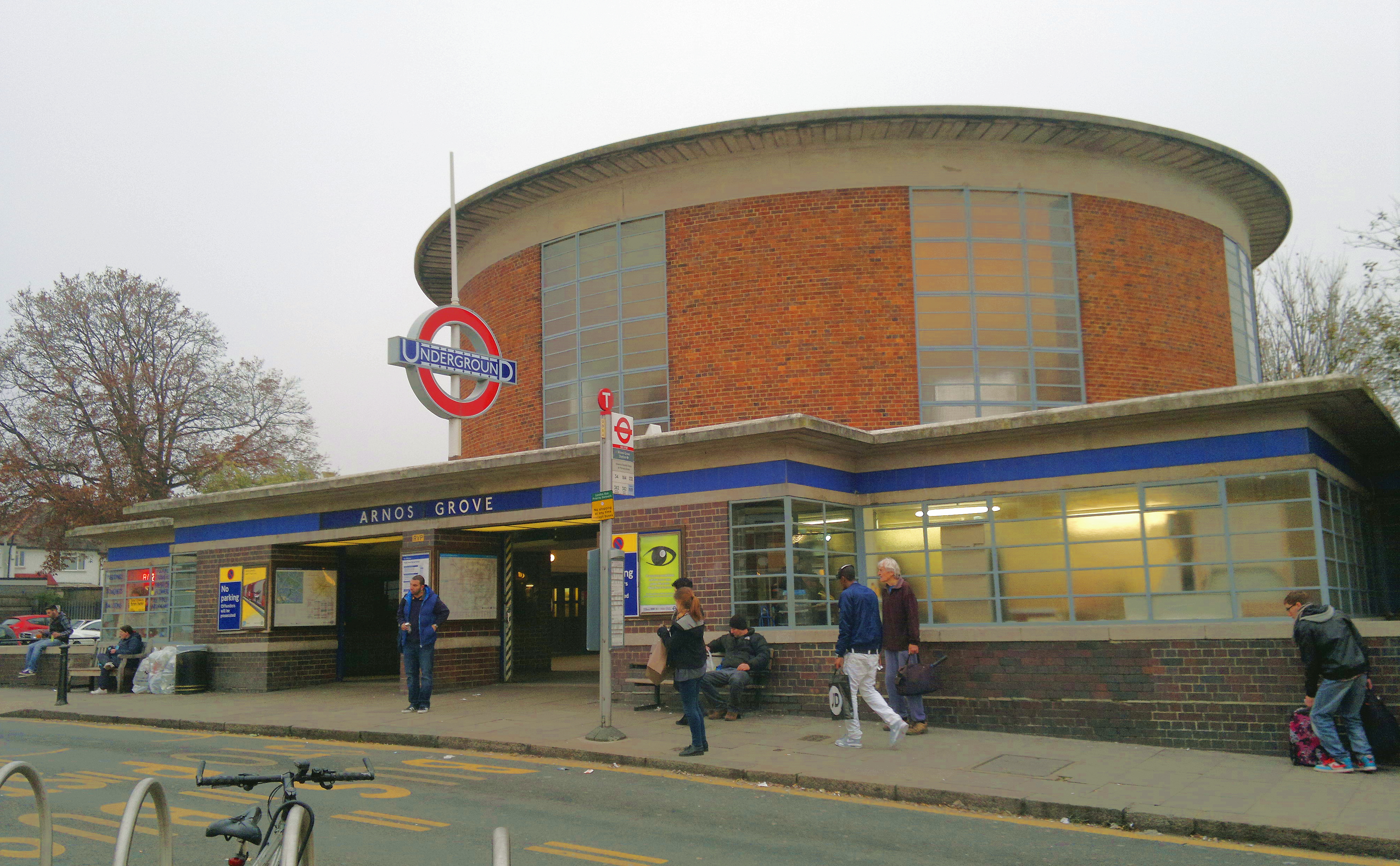 Arnos Grove underground station 16 November 2012.